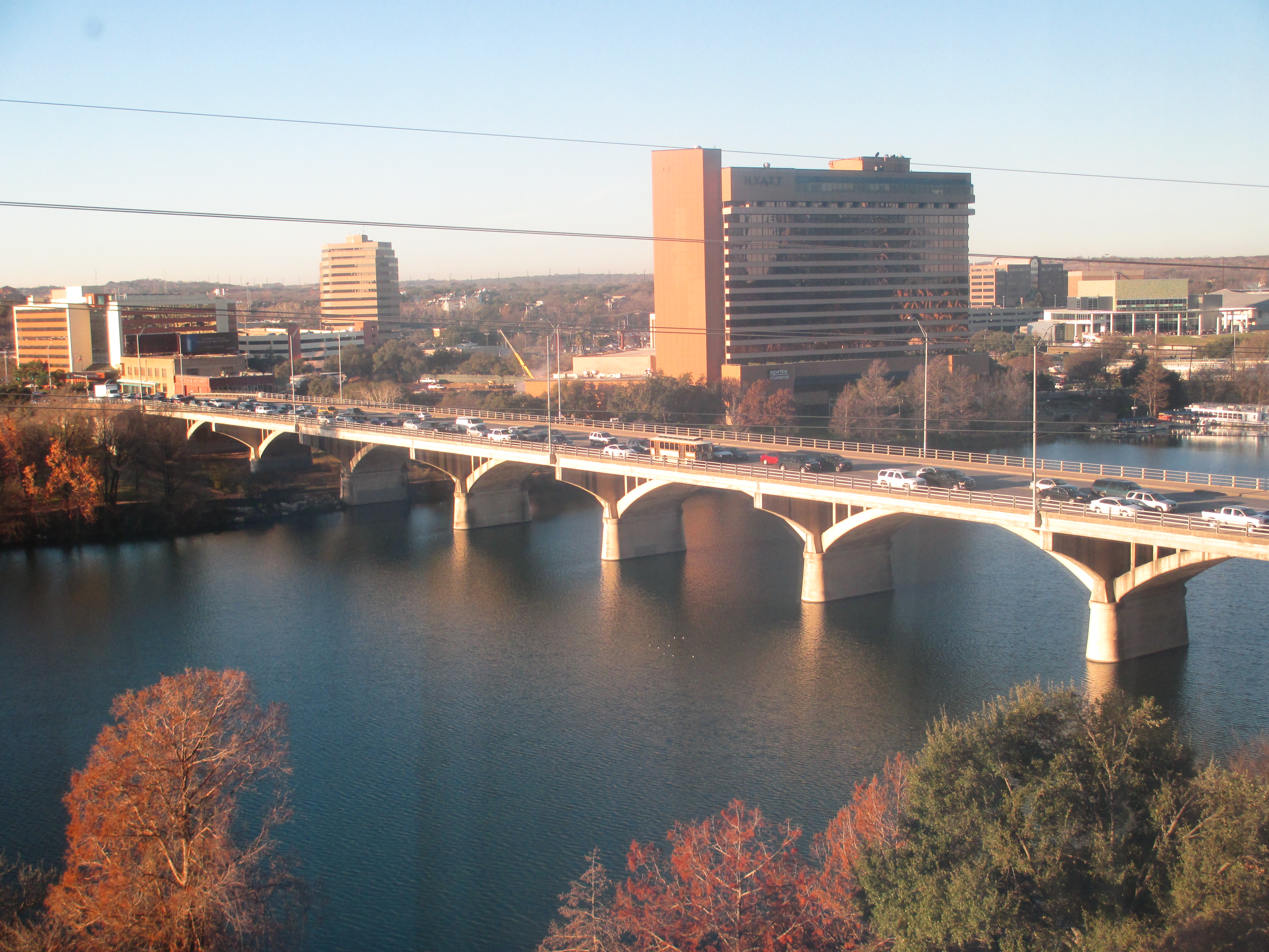 Canon camera Congress Avenue bridge over Lake Lady Bird in Austin, TX 1-18-2013